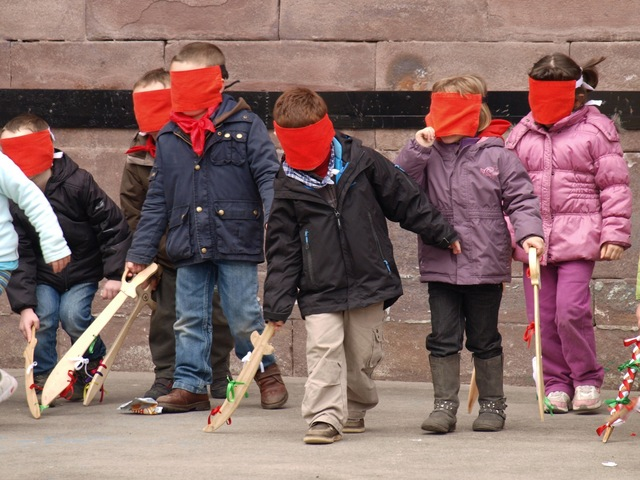 Children playing Oilar jokoa in Elizondo, Navarre